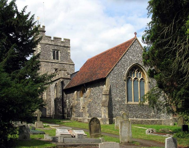 St Giles, South Mimms, Herts